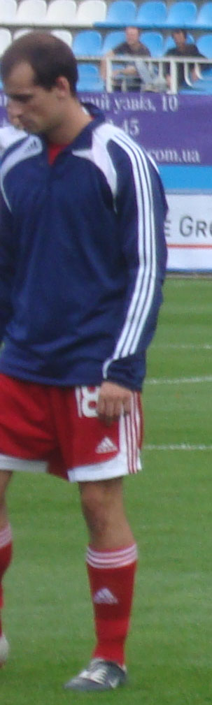 Genis Garcia, Andorran footballer, before the game Ukraine vs Andorra